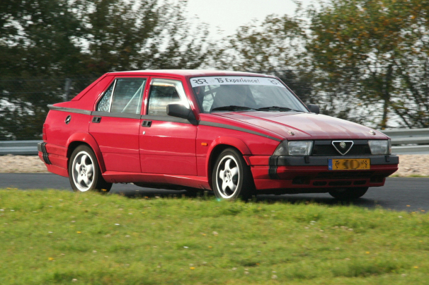 Alfa Romeo 75 Original photograph modified (cropped, removed license plate number and borders)